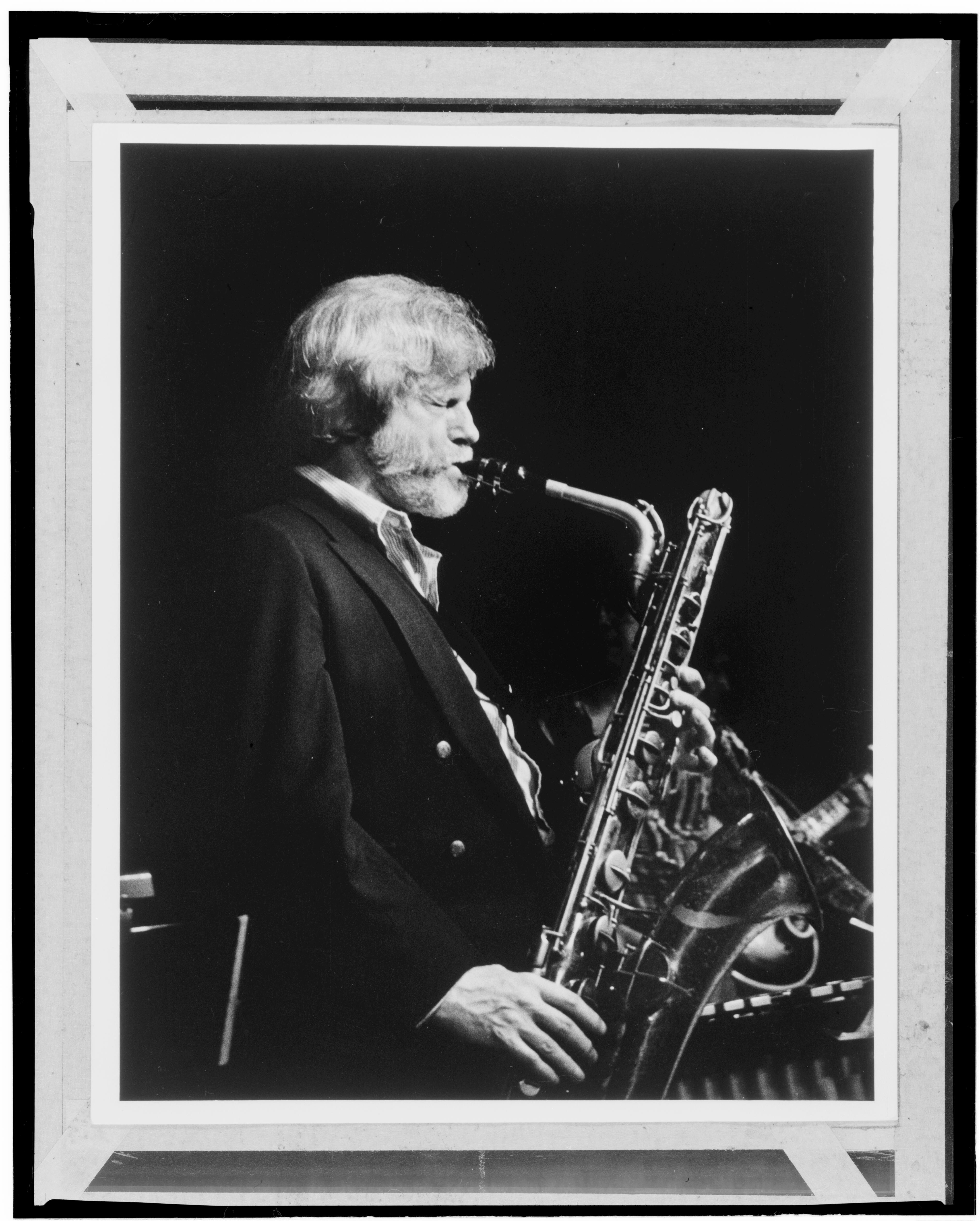 Gerry Mulligan, ca. 1980s (Photograph by William P. Gottlieb)